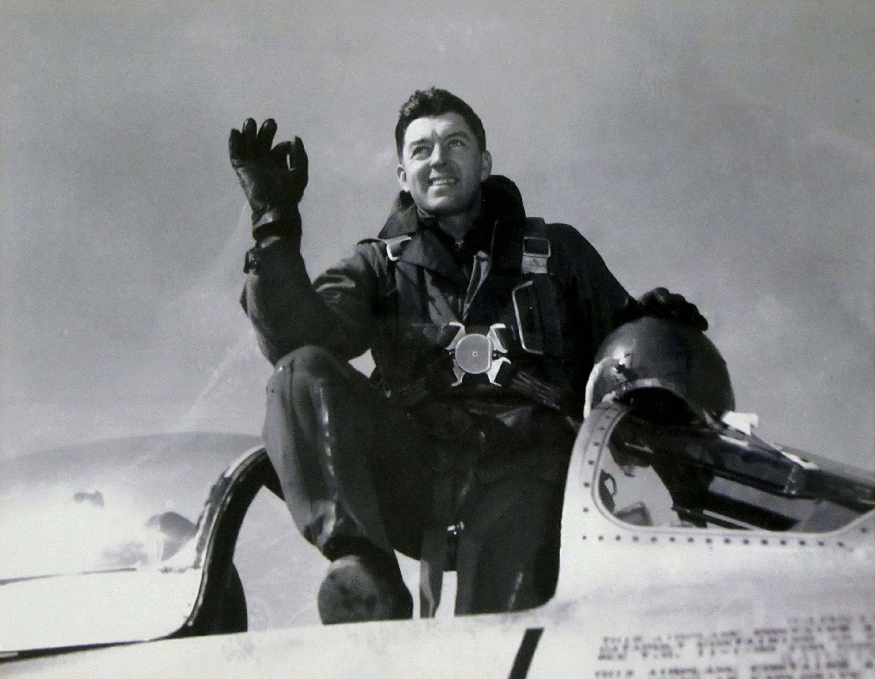 A photograph, displayed in the 335th Fighter Squadron Headquarters building of Captain Robert J. Love. This photograph is part of a collage depicting seven of the sixteen Korean War fighter aces from the 335th Fighter-Interceptor Squadron. Captain Love is credited with six kills and became an ace with his fifth kill on 3 March 1952.